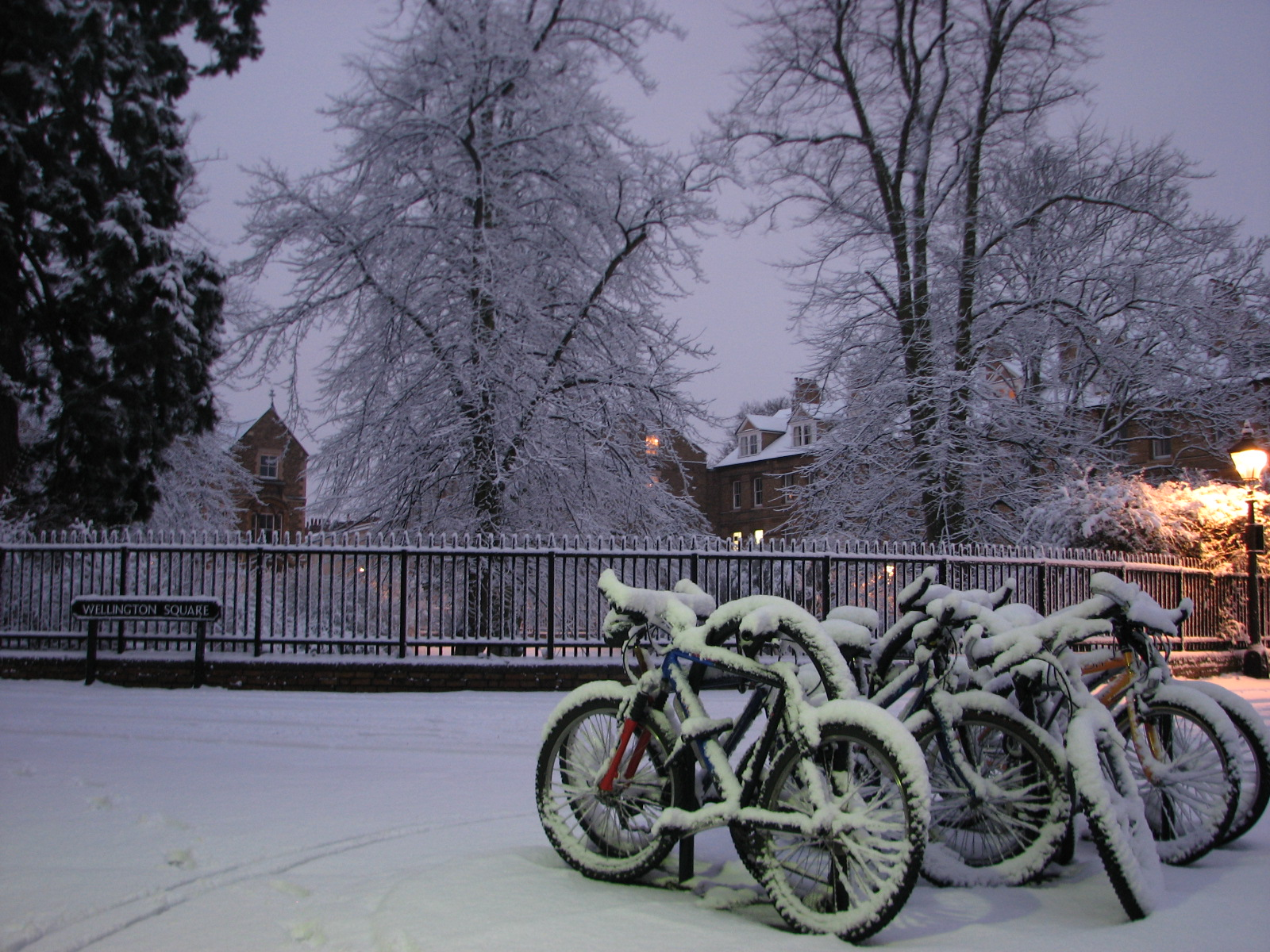 Wellington Square, Oxford, England. Taken early on the morning of 8th February 2007. Photograph by Eoin Brennan.